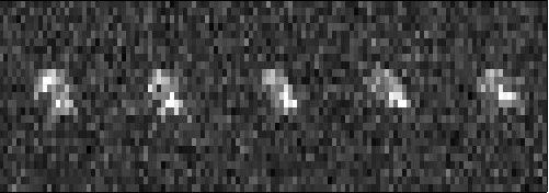 These low-resolution radar images of asteroid 2007 TU24 were taken over a few hours by the Goldstone Solar System Radar Telescope in California's Mojave Desert. Image resolution is approximately 20-meters per pixel. Next week, the plan is to have a combination of several telescopes provide higher resolution images.